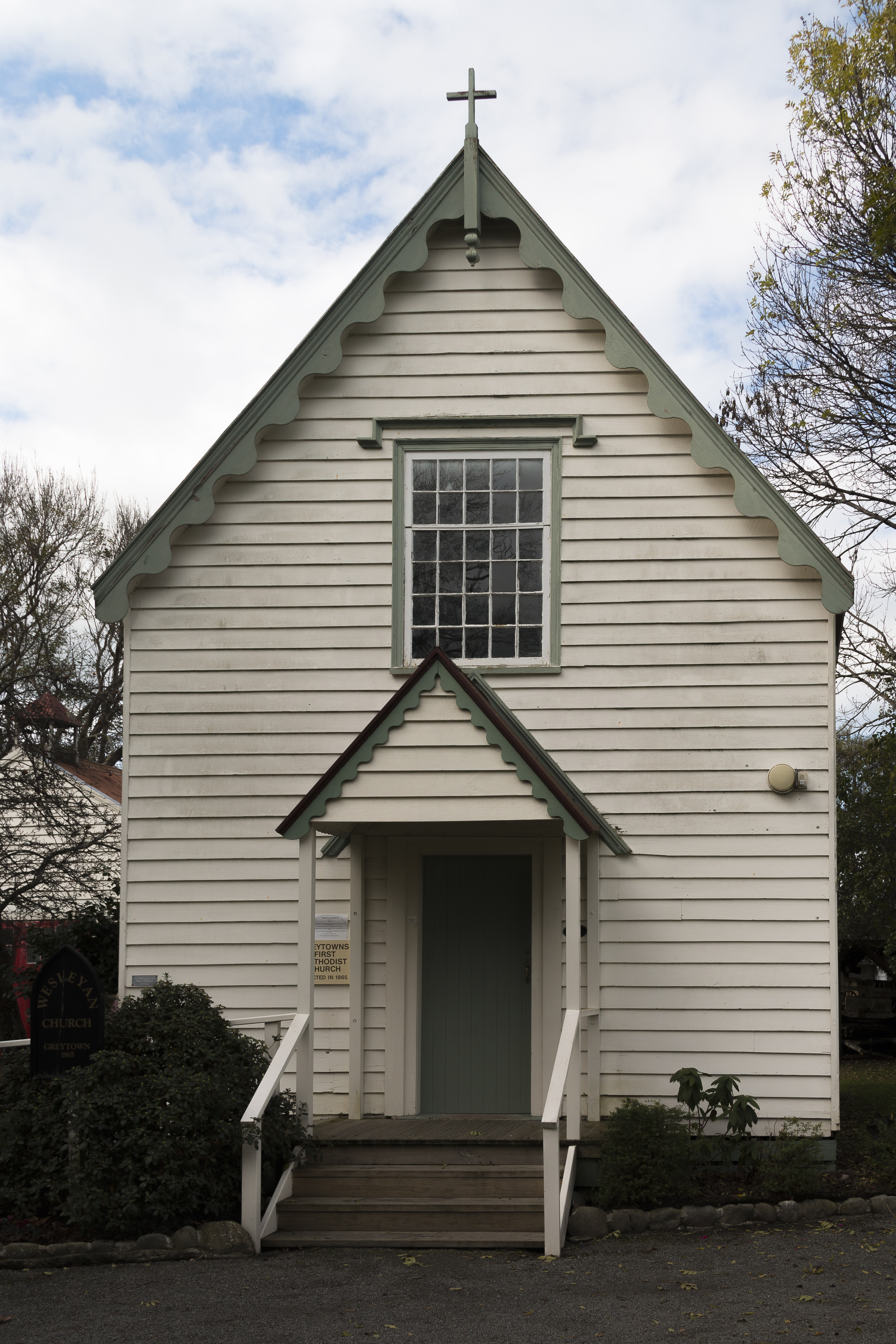 The former Greytown Methodist Church is registered by the New Zealand Historic Places Trust as a Category II structure, with registration number 4004.